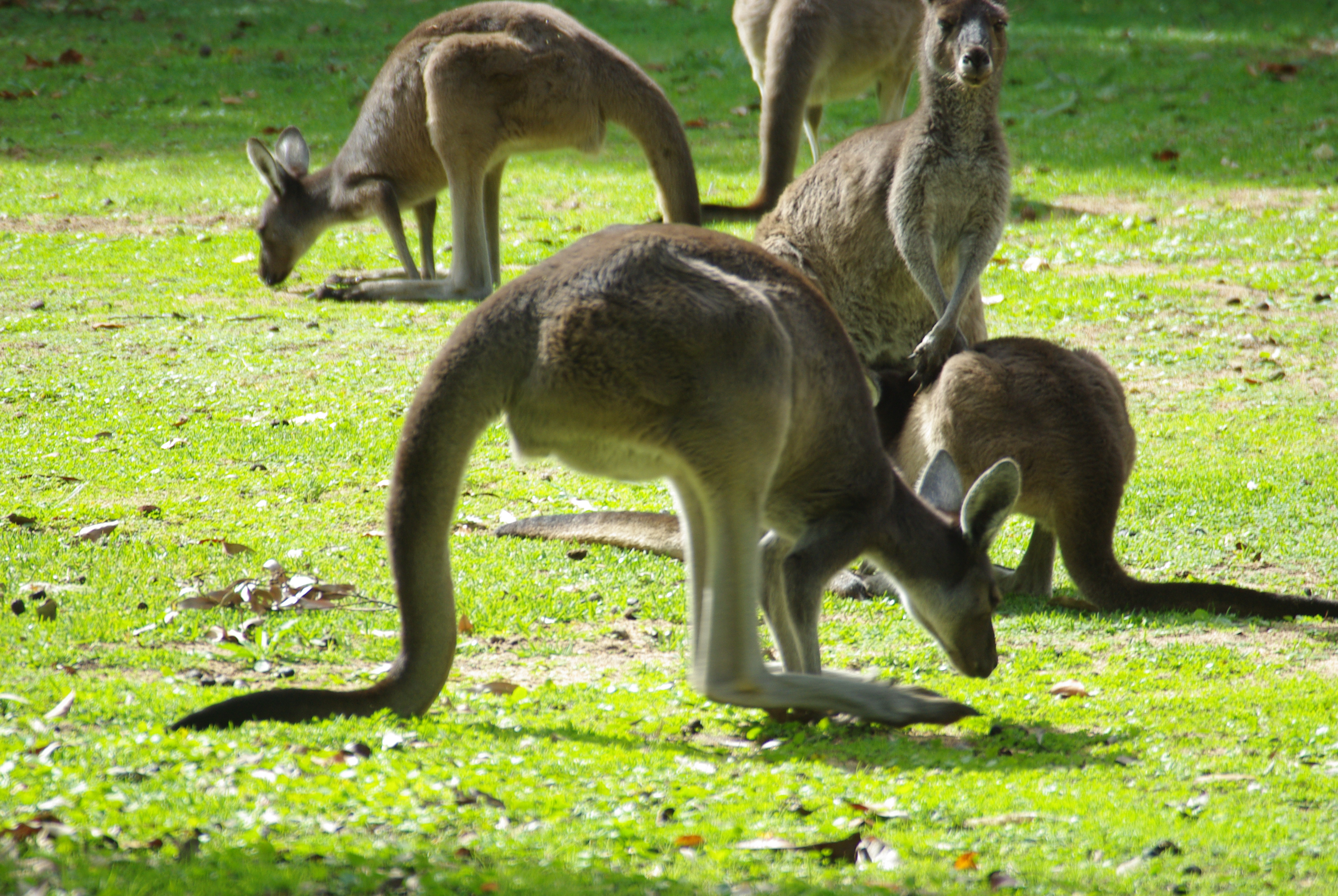 Macropus fuliginosus (Western Grey Kangaroo) feeding, Darling Range, western Australia